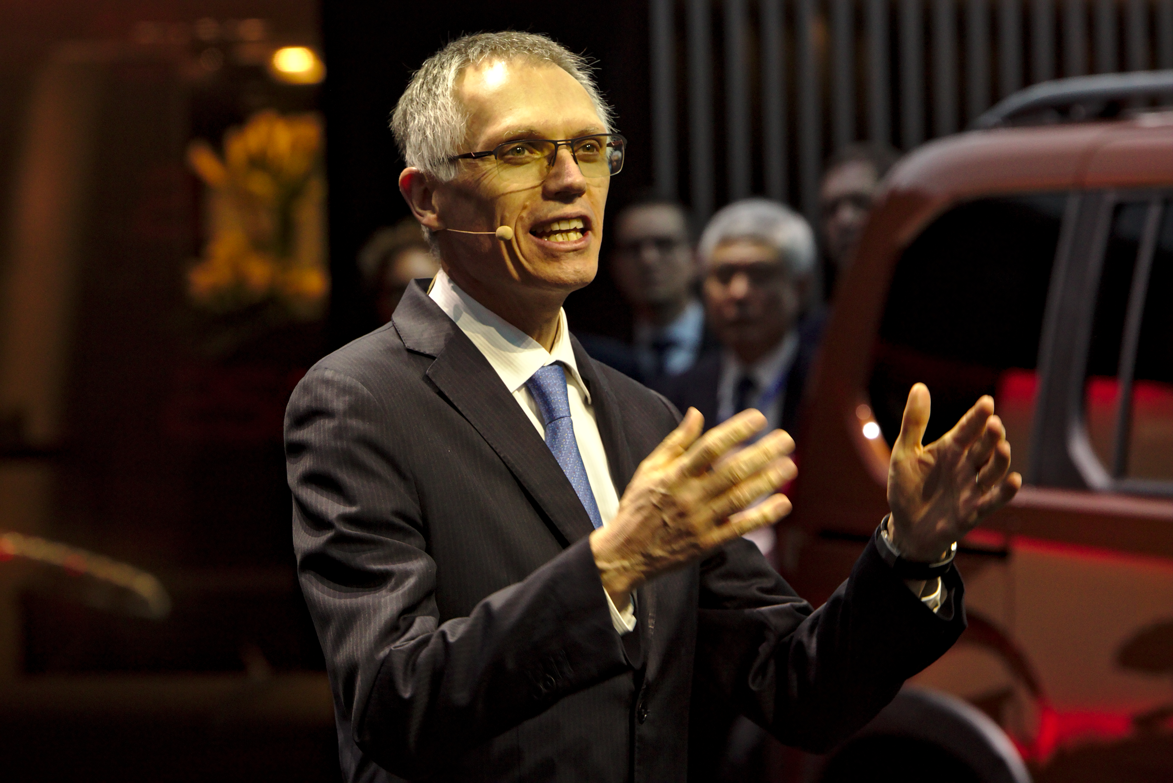 Carlos Tavarez at Geneva Motorshow 2018